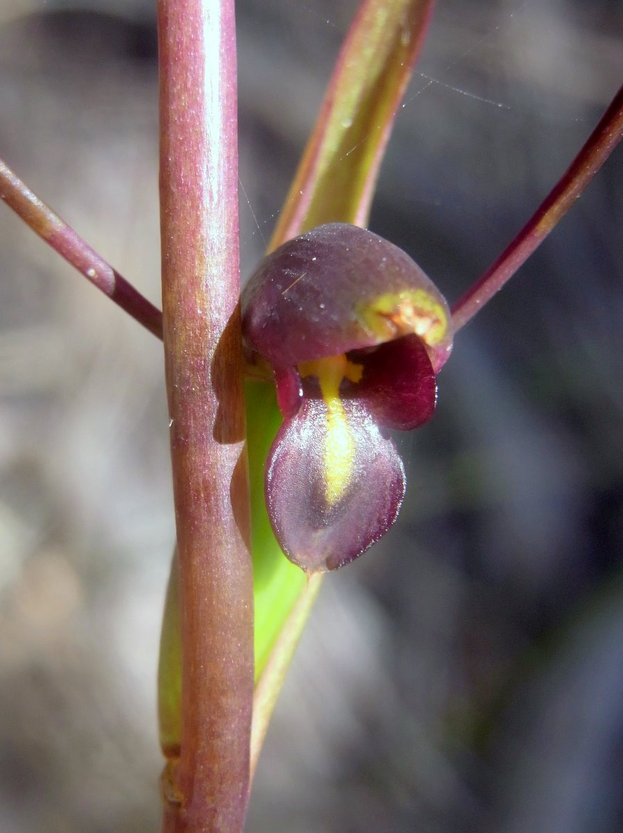 orchid: Waratah Track, Ku-ring-gai Chase National Park, Australia. Probably Orthoceras strictum